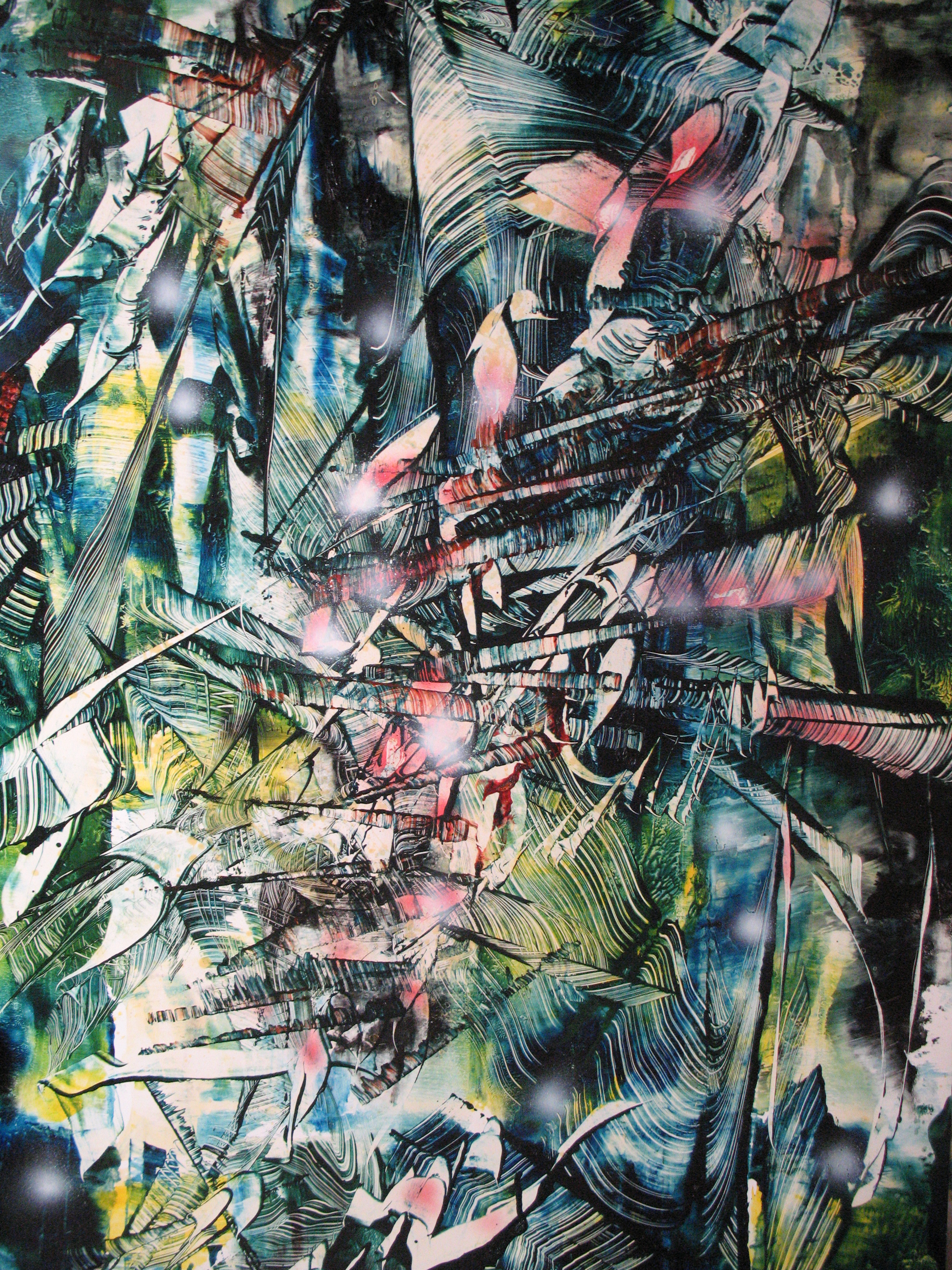 CANADA ART ,artist waldemar smolarek studio in vancouver biograph; gallery Who's Who in American Art.USA. http